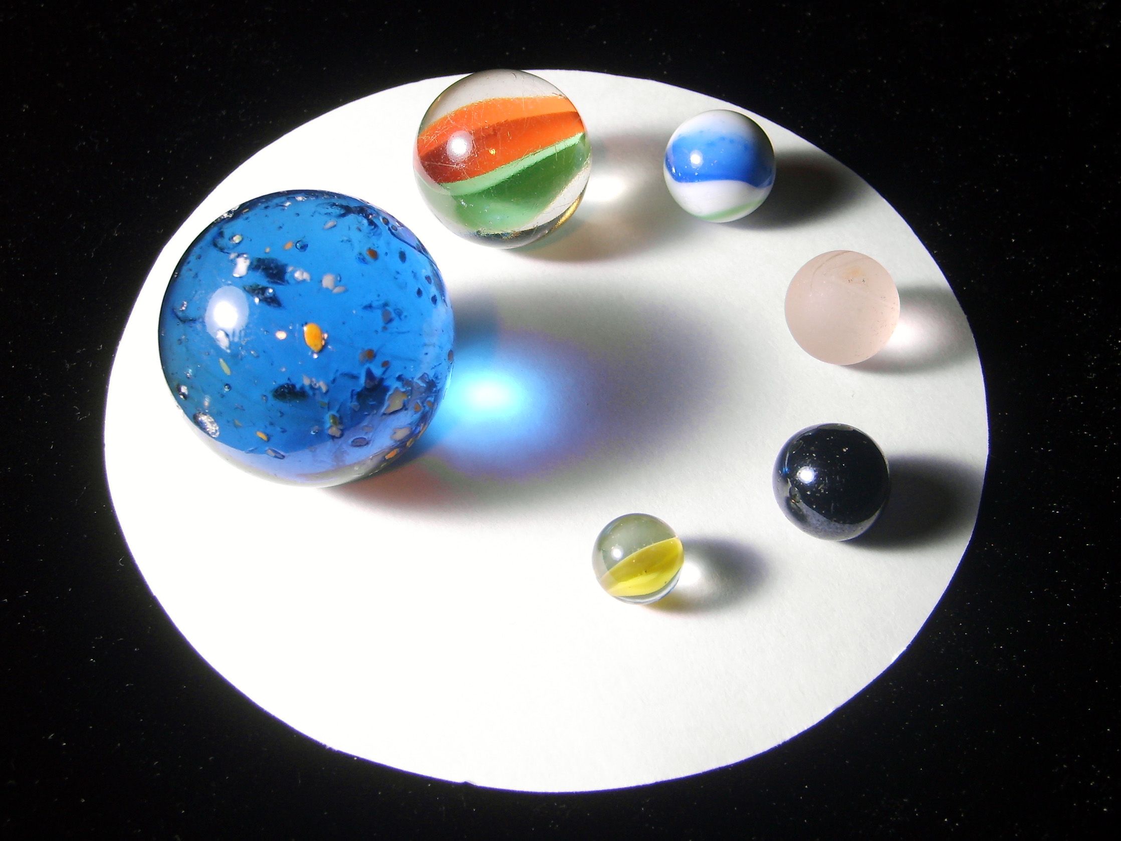 Marbles of different sizes and colors.